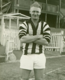 Photograph of Jack Green in the early 1940s